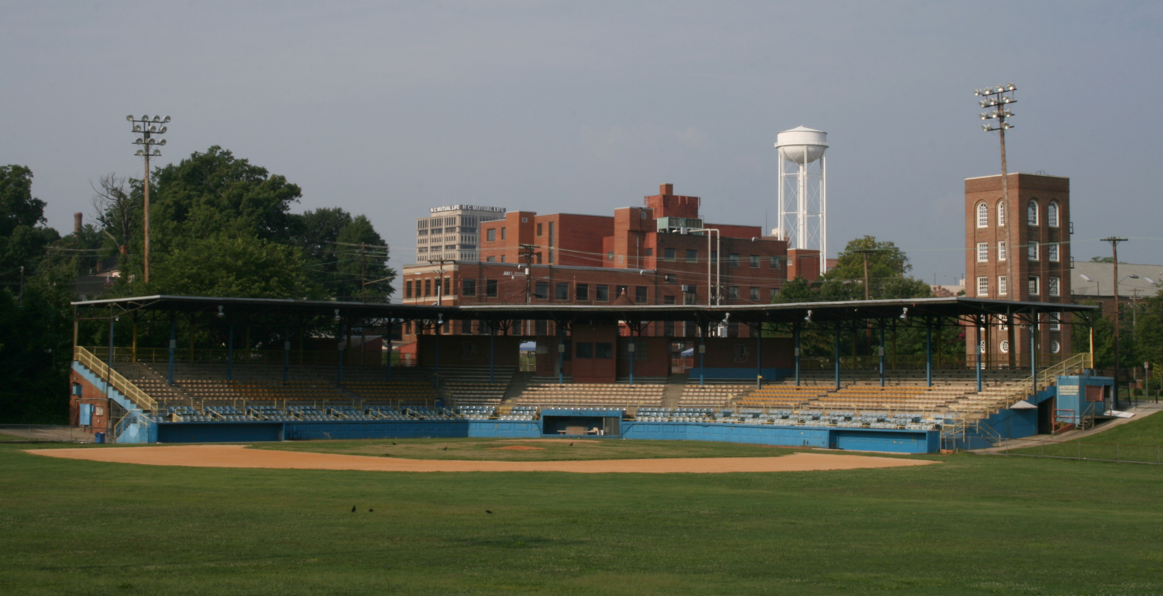 Durham Athletic Park in Durham, North Carolina. In the background are the headquarters of Measurement Incorporated and the North Carolina Mutual Life Insurance Company Building.